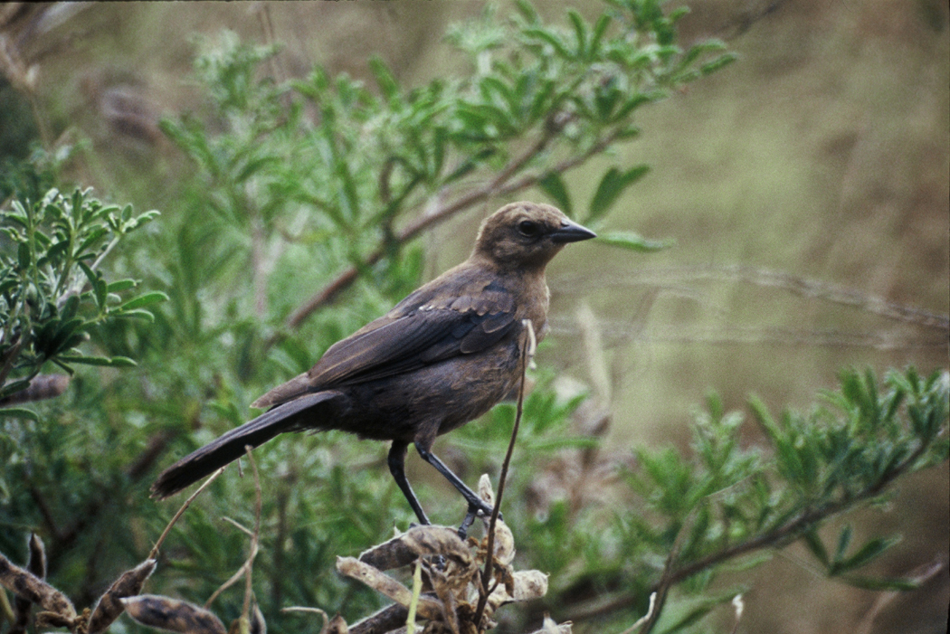 Brown-headed Cowbird (Molothrus ater), female: this photograph has been acknowledged as Karney's work at and